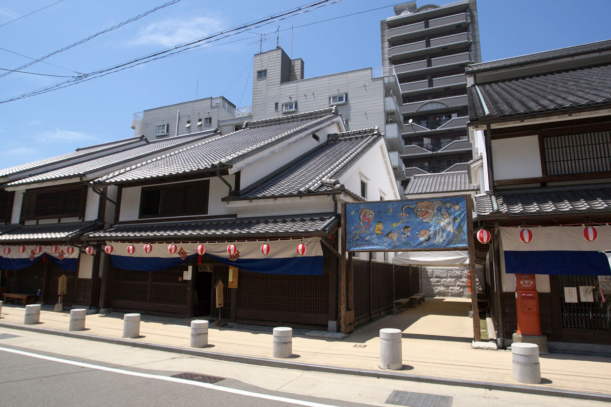 Hakata Machiya Furusato Kan, in Hakata, Fukuoka city, Japan.